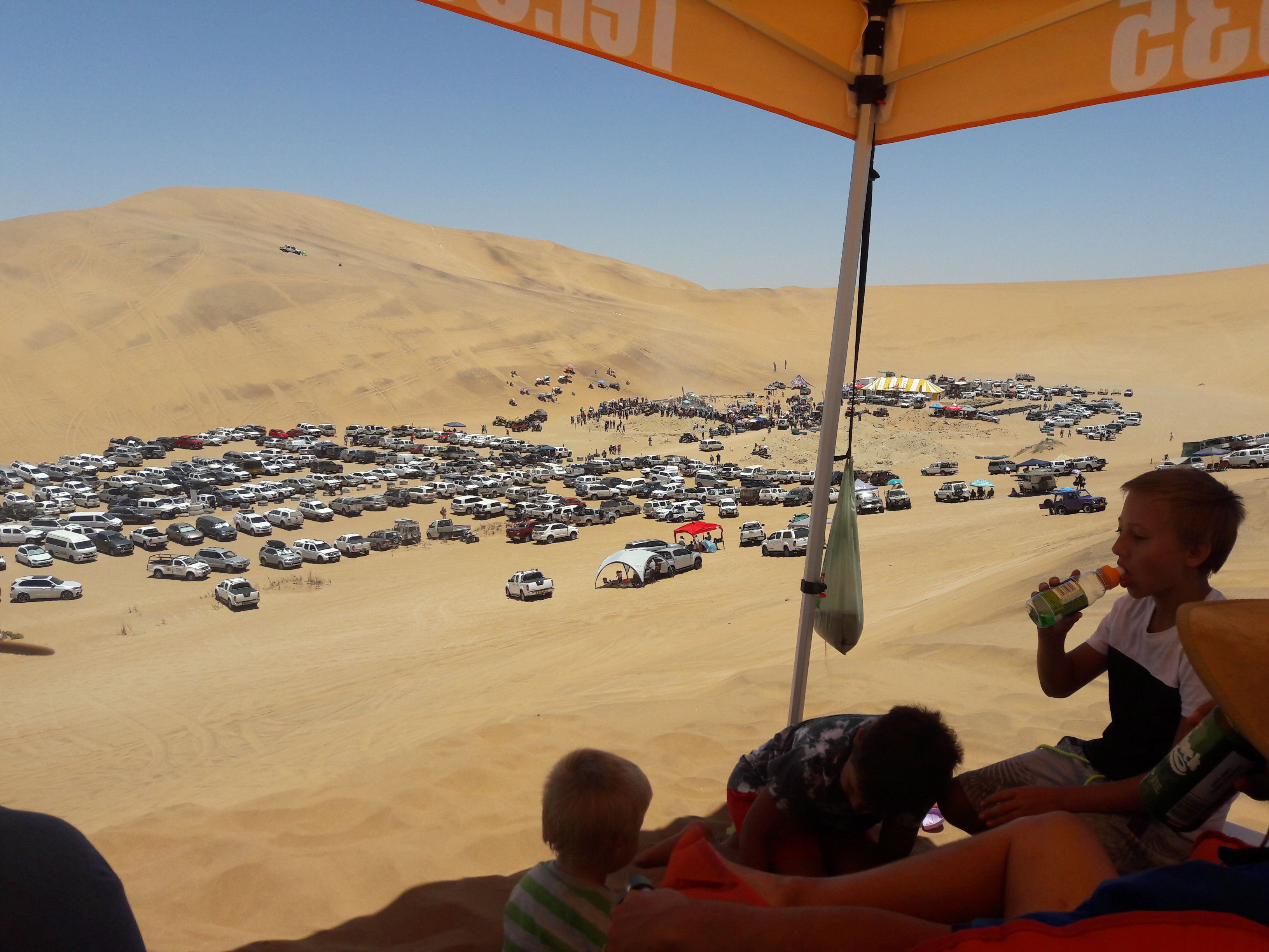 This is an image with the theme "Play" from: Namibia